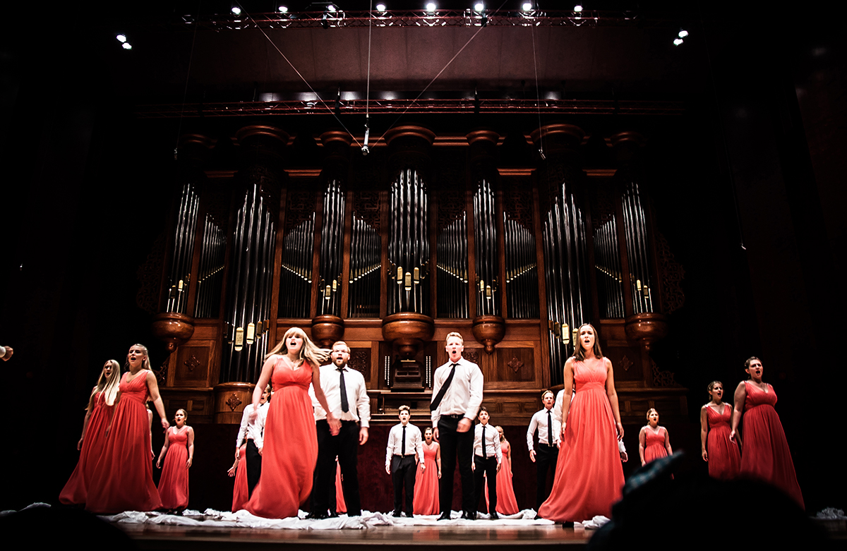 Concert of Defrost Youth Choir in Taipei National Concert Hall